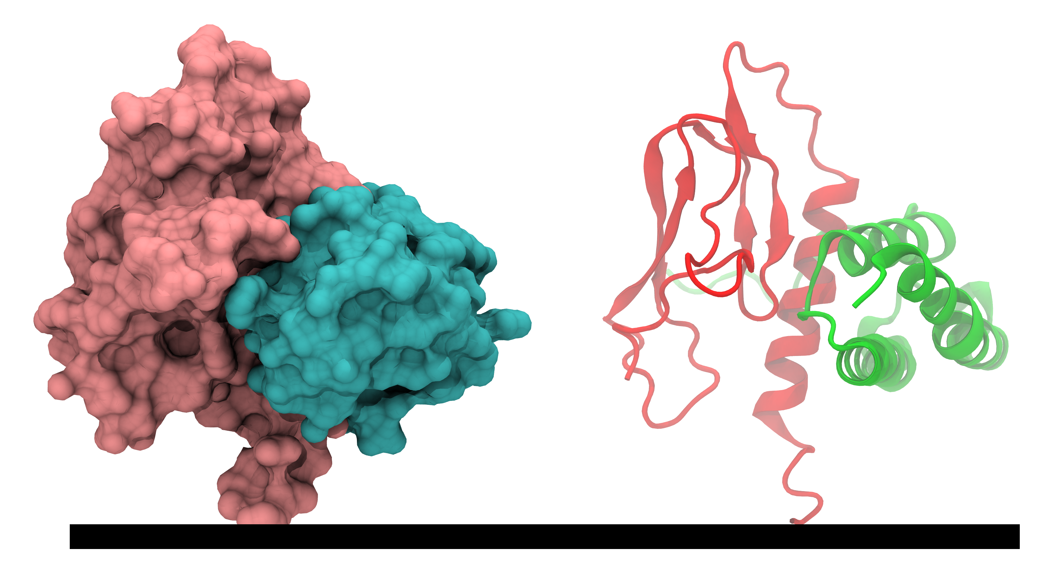 surface/ribbon model of CGRPR/RAMP1 (red/green) dimer after PDB 3N7P. Ref.: Crystal structure of the ectodomain complex of the CGRP receptor, a class-B GPCR, reveals the site of drug antagonism. Ter Haar, E., Koth, C.M., Abdul-Manan, N., Swenson, L., Coll, J.T., Lippke, J.A., Lepre, C.A., Garcia-Guzman, M., Moore, J.M. Journal: (2010) Structure 18: 1083-1093 PMID 20826335 This image was created with VMD